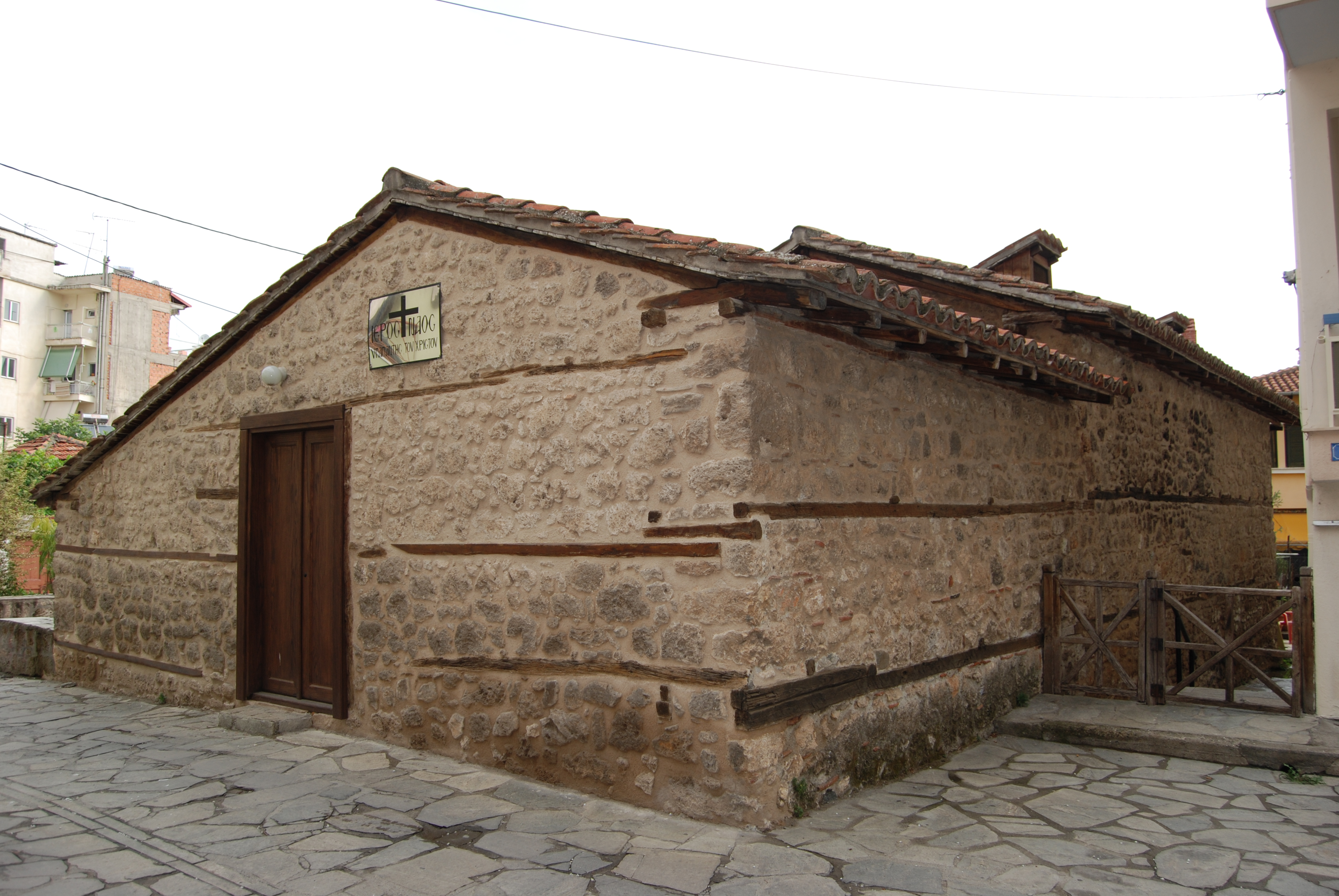 Ypapanti Panaguda, Ber